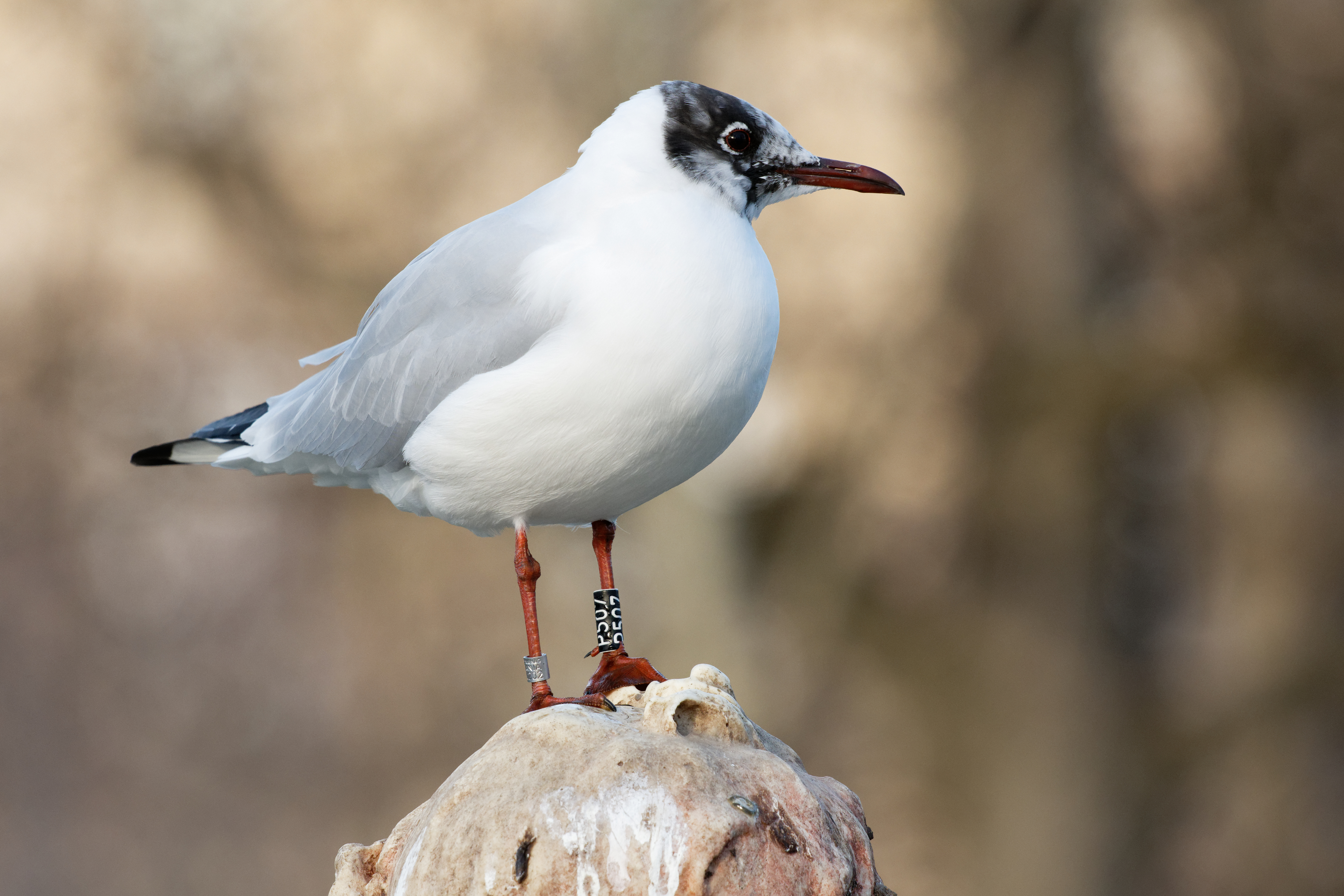 Adult male (hatched before 2009) Black-headed Gull (Chroicocephalus ridibundus) at the north basin of the Tuileries Gardens in Paris. Ringed on 1st April 2010 (metal ring on right tarsus Lithuania, Kaunas / Mus. Zool. HA13202, plastic ring on right tarsus P507) in Klaipėda (55.6708N, 21.1778E), Lithuania, the bird winters regularly in the Tuileries Gardens and was sighted more than a hundred times in Paris since October 2010.